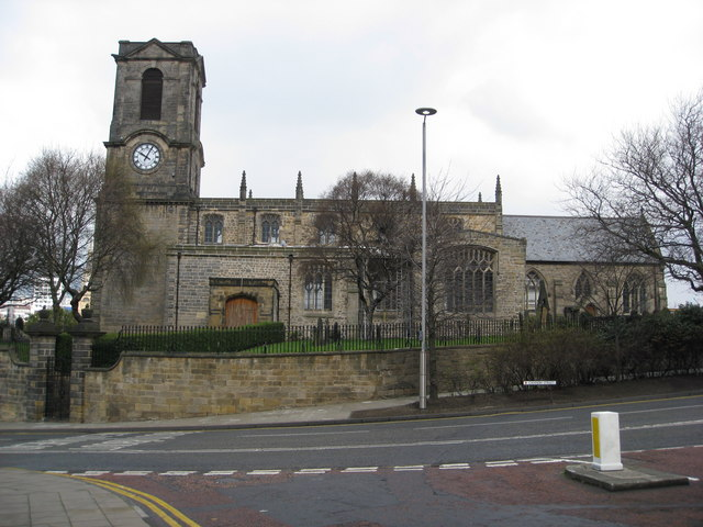 St Mary's parish church, Church Road, Gateshead, Tyne and Wear, seen from the south. It is now the Gateshead Visitor Centre.